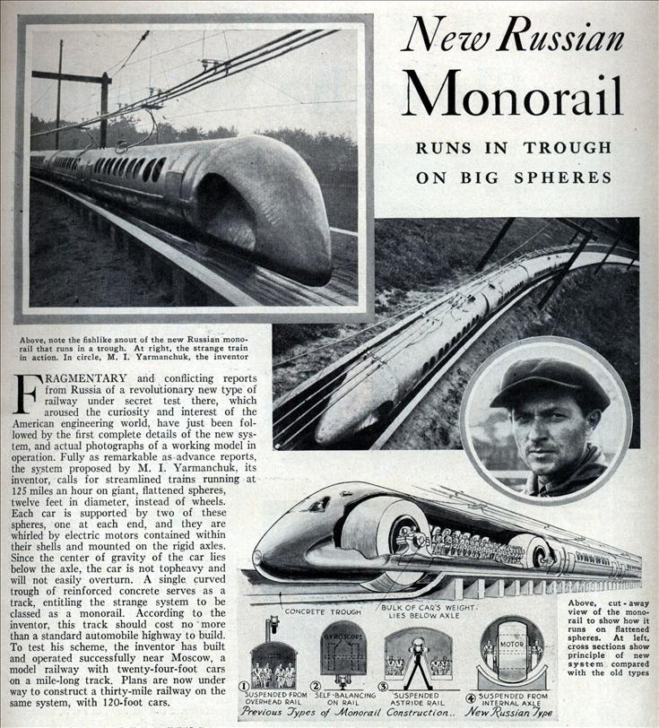 "Monorail Runs on Big Spheres" article from Popular Science Monthly, Feb 1934, page 41: New Russian Monorail RUNS IN TROUGH ON BIG SPHERES FRAGMENTARY and conflicting reports from Russia of a revolutionary new type of railway under secret test there, which aroused the curiosity and interest of the American engineering world, have just been followed by the first complete details of the new system, and actual photographs of a working model in operation. Fully as remarkable as advance reports, the system proposed by M. I. Yarmanchuk, its inventor, calls for streamlined trains running at 125 miles an hour on giant, flattened spheres, twelve feet in diameter, instead of wheels. Each car is supported by two of these spheres, one at each end, and they are whirled by electric motors contained within their shells and mounted on the rigid axles. Since the center of gravity of the car lies below the axle, the car is not topheavy and will not easily overturn. A single curved trough of reinforced concrete serves as a track, entitling the strange system to be classed as a monorail. According to the inventor, this track should cost no more than a standard automobile highway to build. To test his scheme, the inventor has built and operated successfully near Moscow, a model railway with twenty-four-foot cars on a mile-long track. Plans are now under way to construct a thirty-mile railway on the same system, with 120-foot cars.